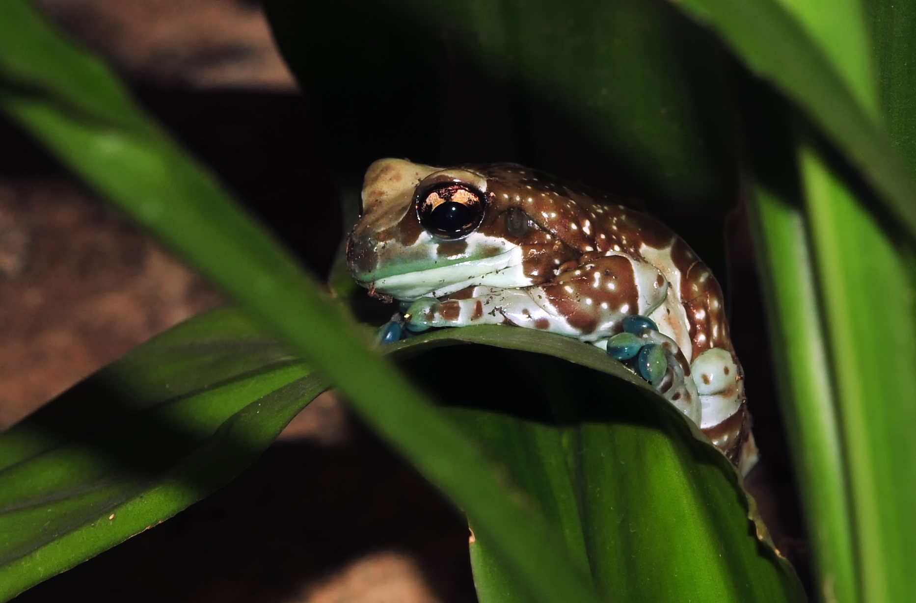 en: Amazon Milk Frog (Trachycephalus resinifictrix)